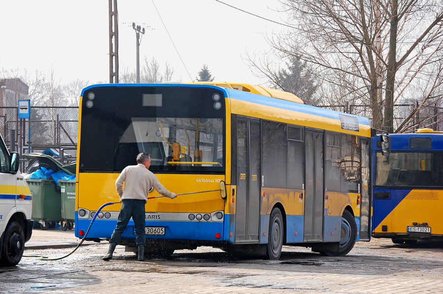 Solaris Urbino 10 bus (reg. ES 30605) in Skierniewice, Poland. Built 2010, MZK Skierniewice operator.